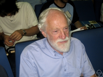 Charles Terence Clegg Wall, English mathematician, ICM 2006 Satellite Conference Algebraic Geometry, Segovia, Spain